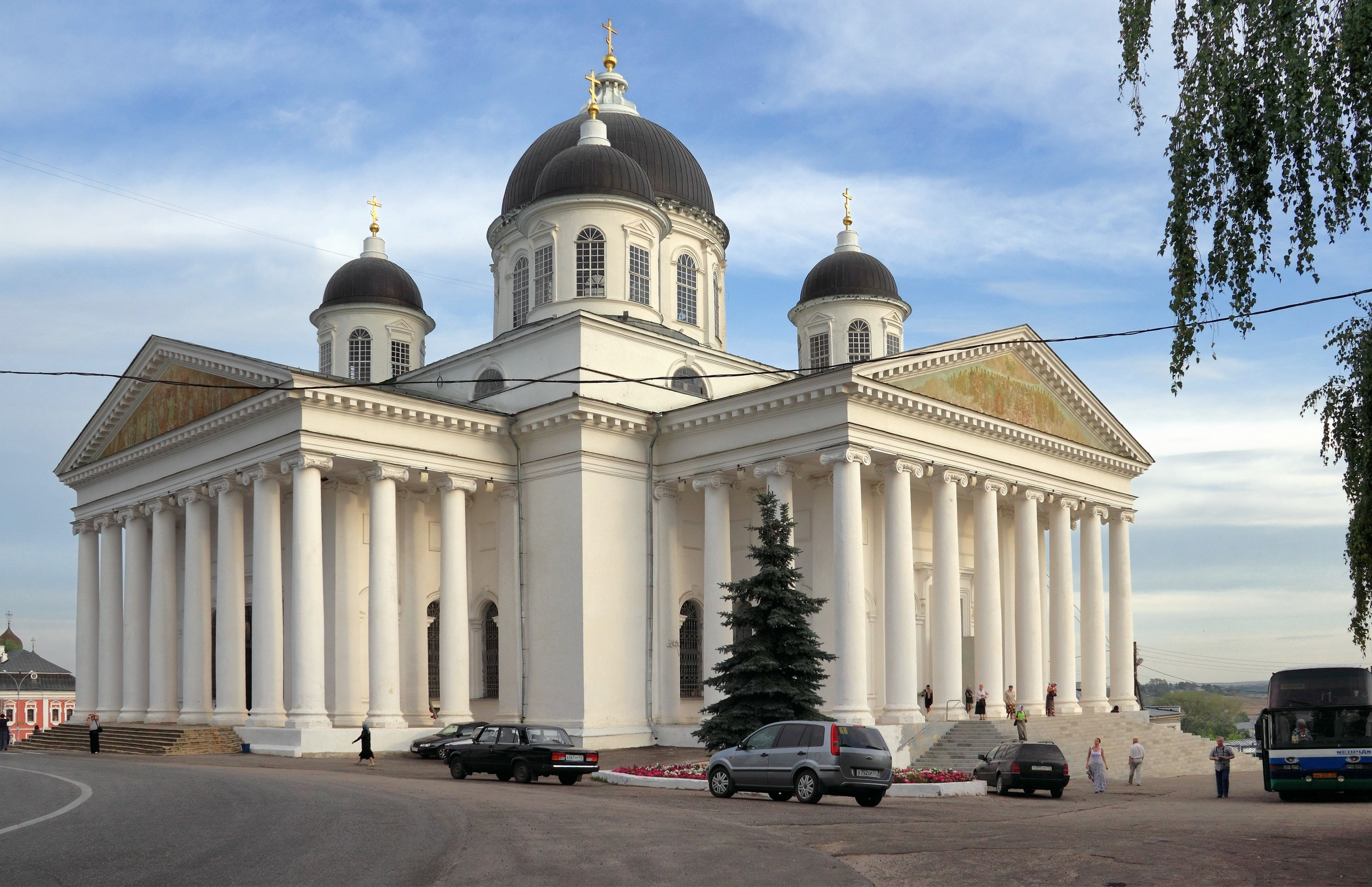 Arzamas. Resurrection Cathedral